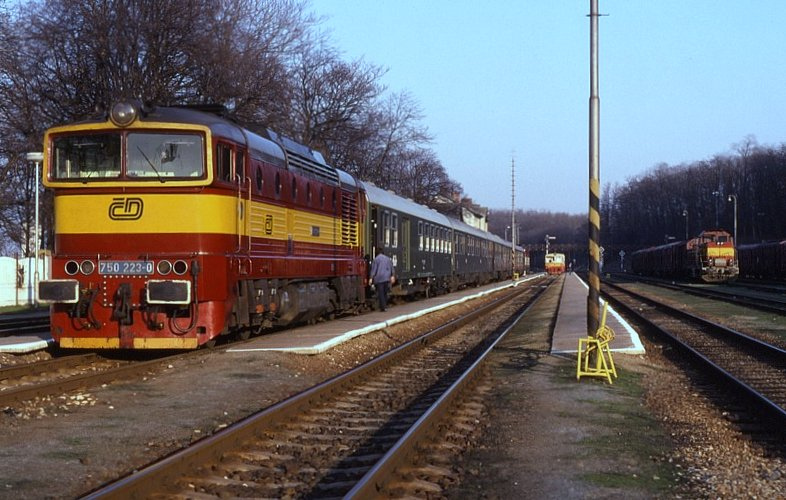 Having reversed, 750.223 takes over from 750.146 at Hrušovany nad Jevišovkou on train 14504, 16:55 Brno hl.n. to Znojmo on 17 April 1996.